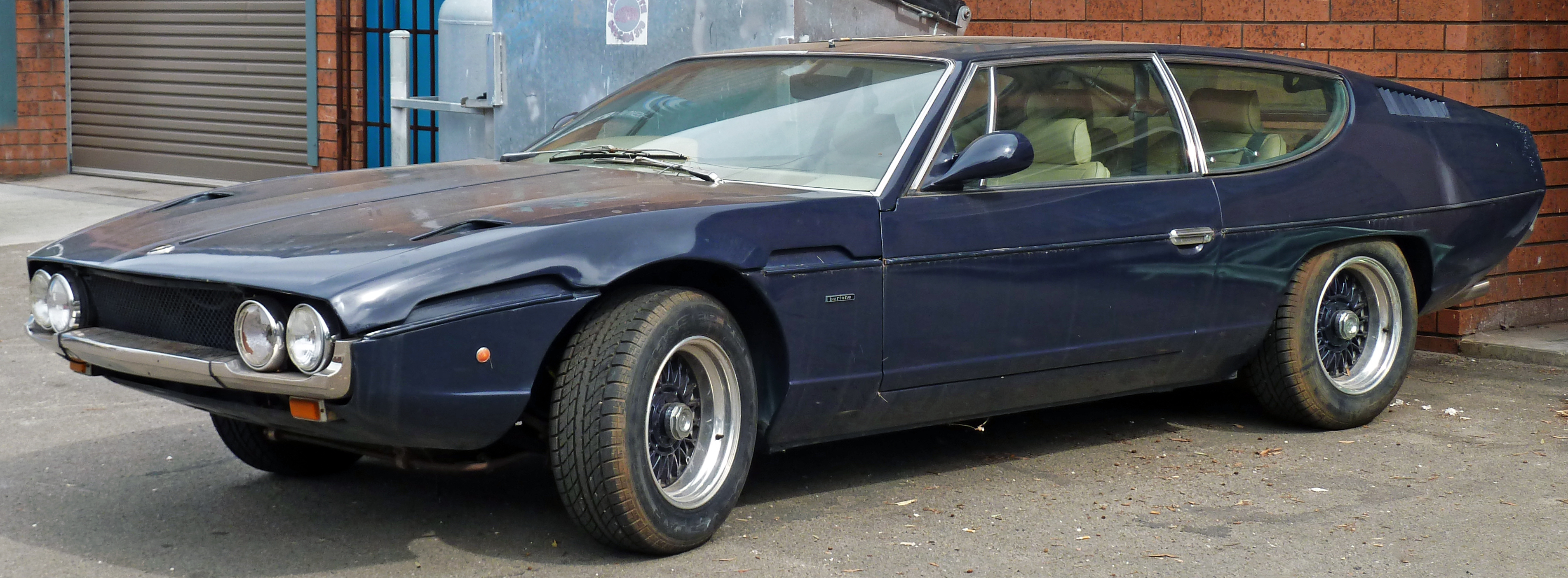 1968–1978 Lamborghini Espada coupe. Photographed in Taren Point, New South Wales, Australia.